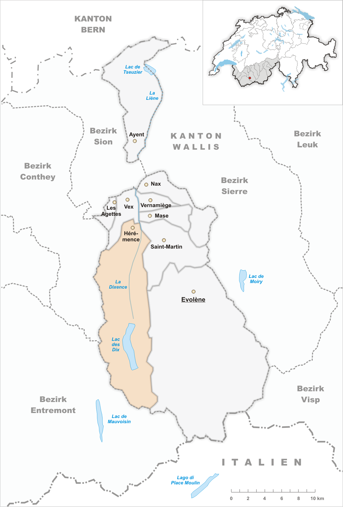 Municipality Hérémence